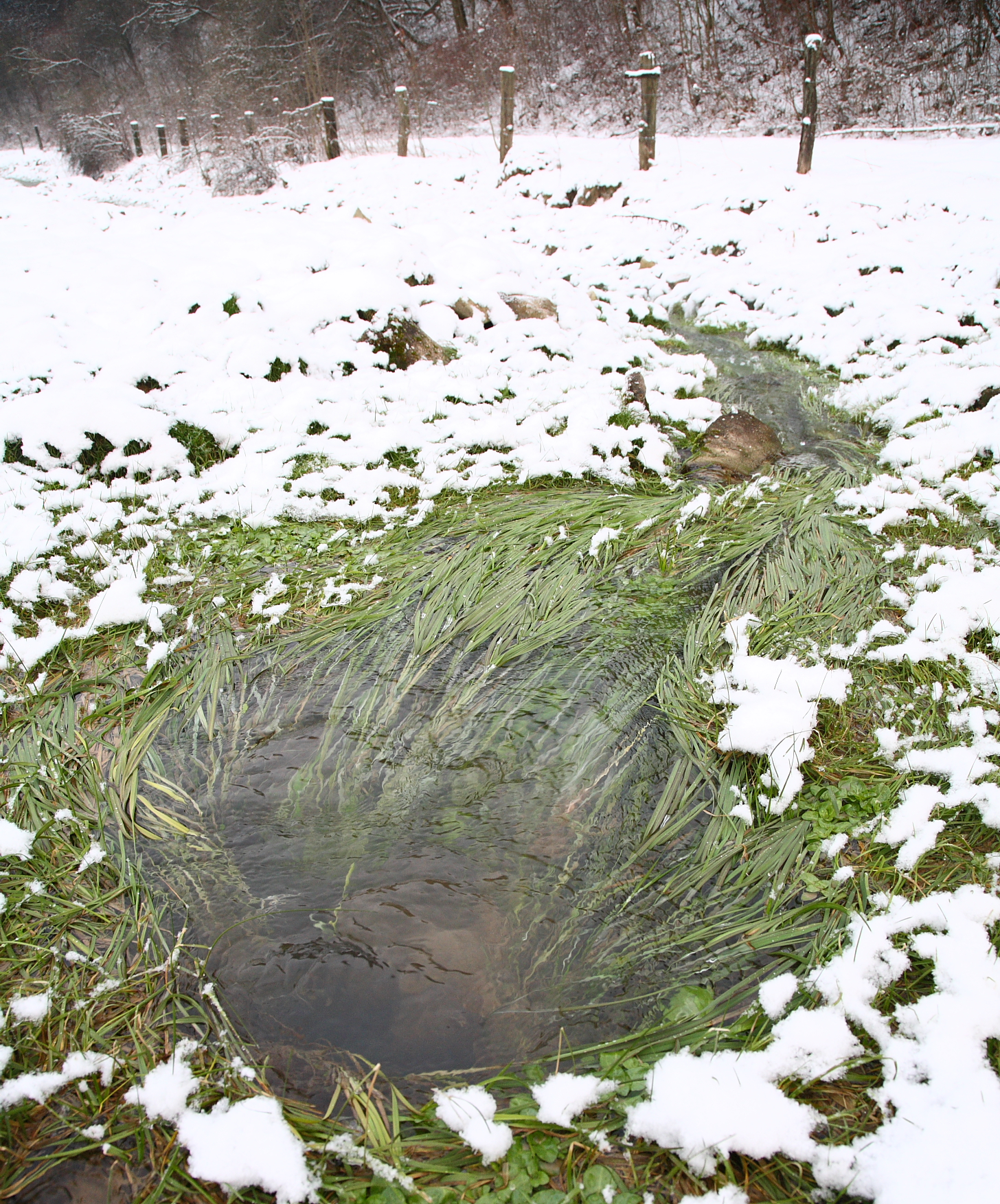 Small karst spring, emerging in grassland only. The spring's unfiltered, clayish, wheathered debris is gradually layering cones with the grass on top.